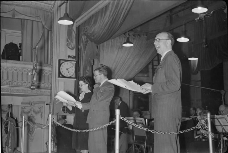 The Laugh!- the Recording of the Radio Comedy 'itma', London, England, UK, 1945 Conductor Charlie Shadwell (right) laughs at Tommy Handley and Dorothy Summers during the recording of an episode of 'It's That Man Again'. The BBC Variety Orchestra is visible behind them on the stage.